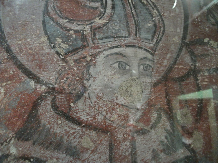 Details of a medieval wall-painting in the Museum reception area.